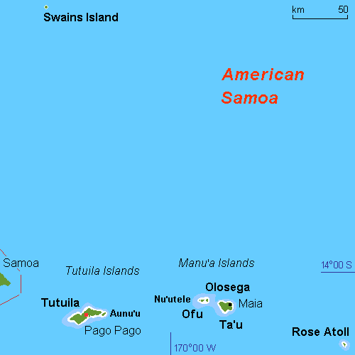 Map (rough) American Samoa, US, own work composed from various mapreferences